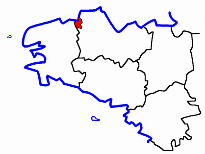 Description: Map for localisazion of cantons of Bretagne region in France Source: made by Hervé Tigier in april 2005 from another large map (published in 1990)